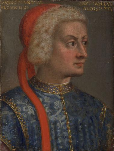 Portrait of Guido Gonzaga (1290-1369)